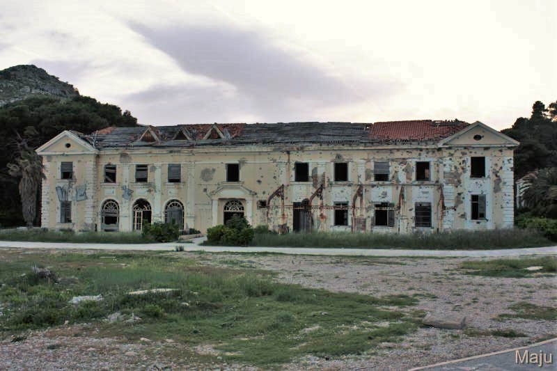 Kupari, Župa Dubrovačka